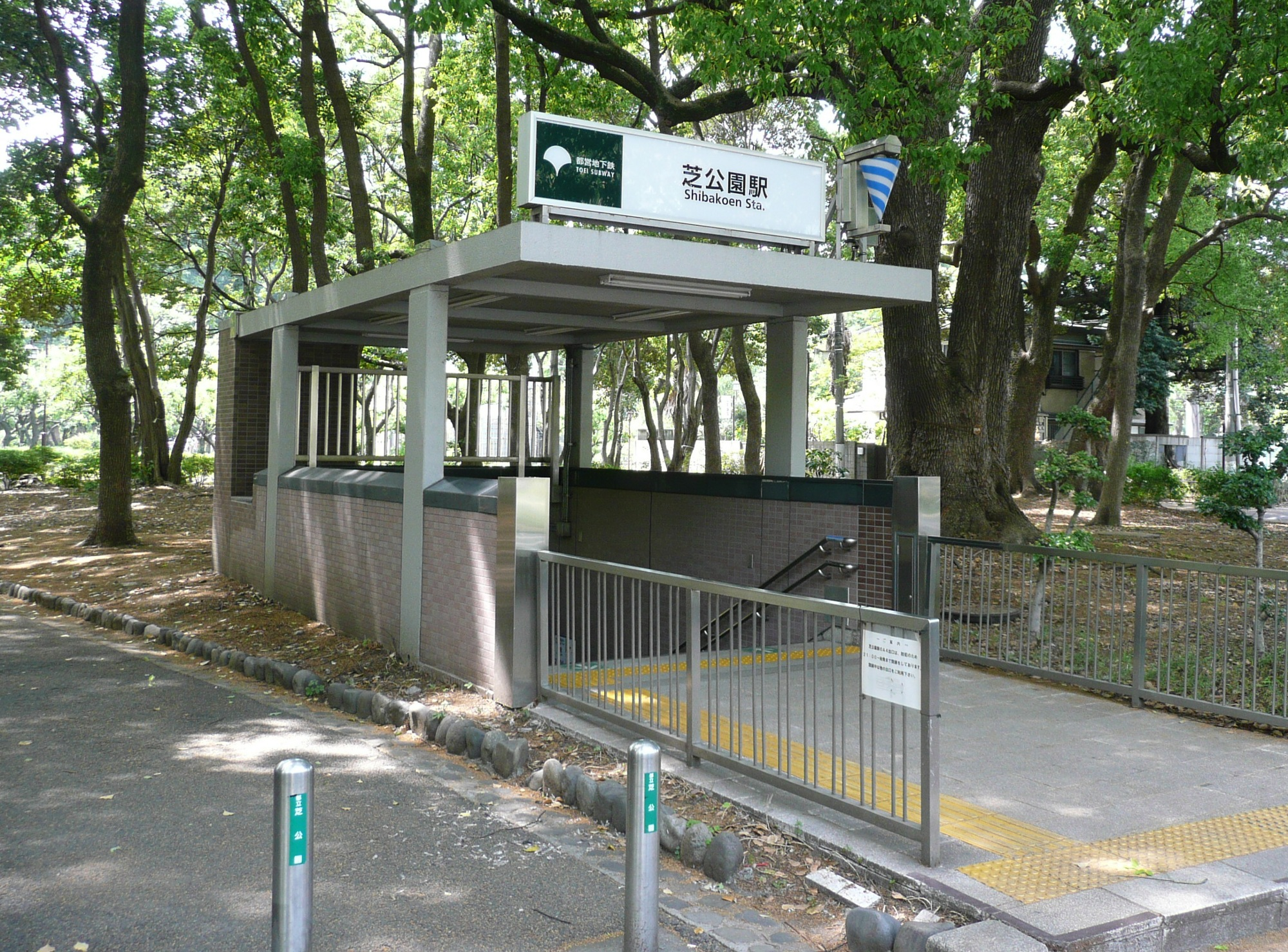 Shibakōen Station entrance A4